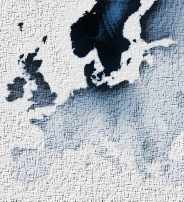 See below.